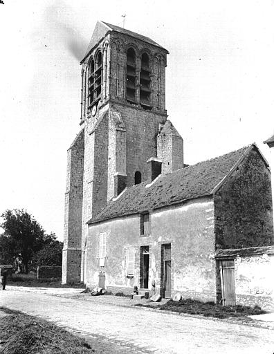 Clocher